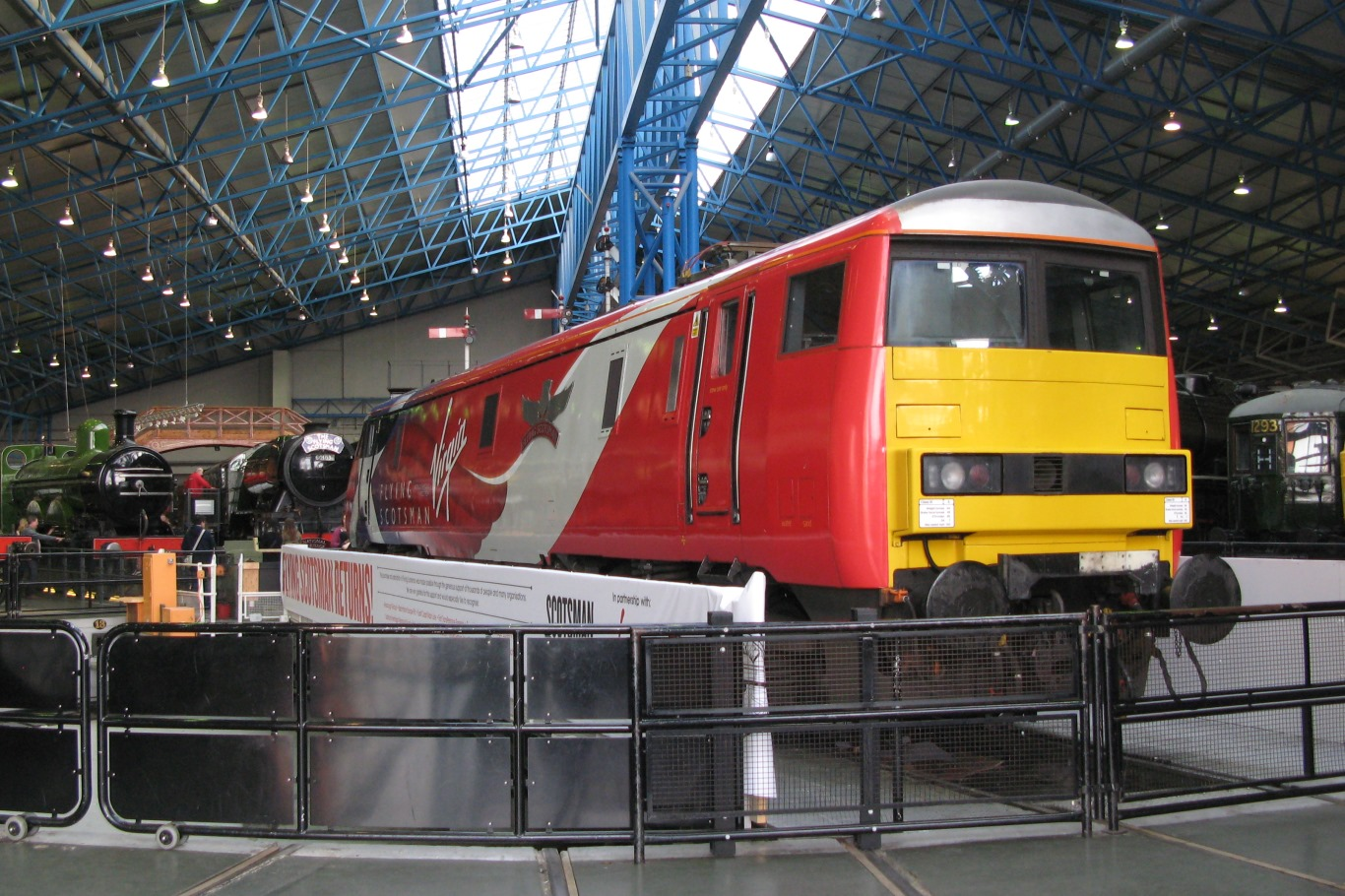 Virgin Trains' 91101 on the turntable in the Great Hall of the National Railway Museum in York.